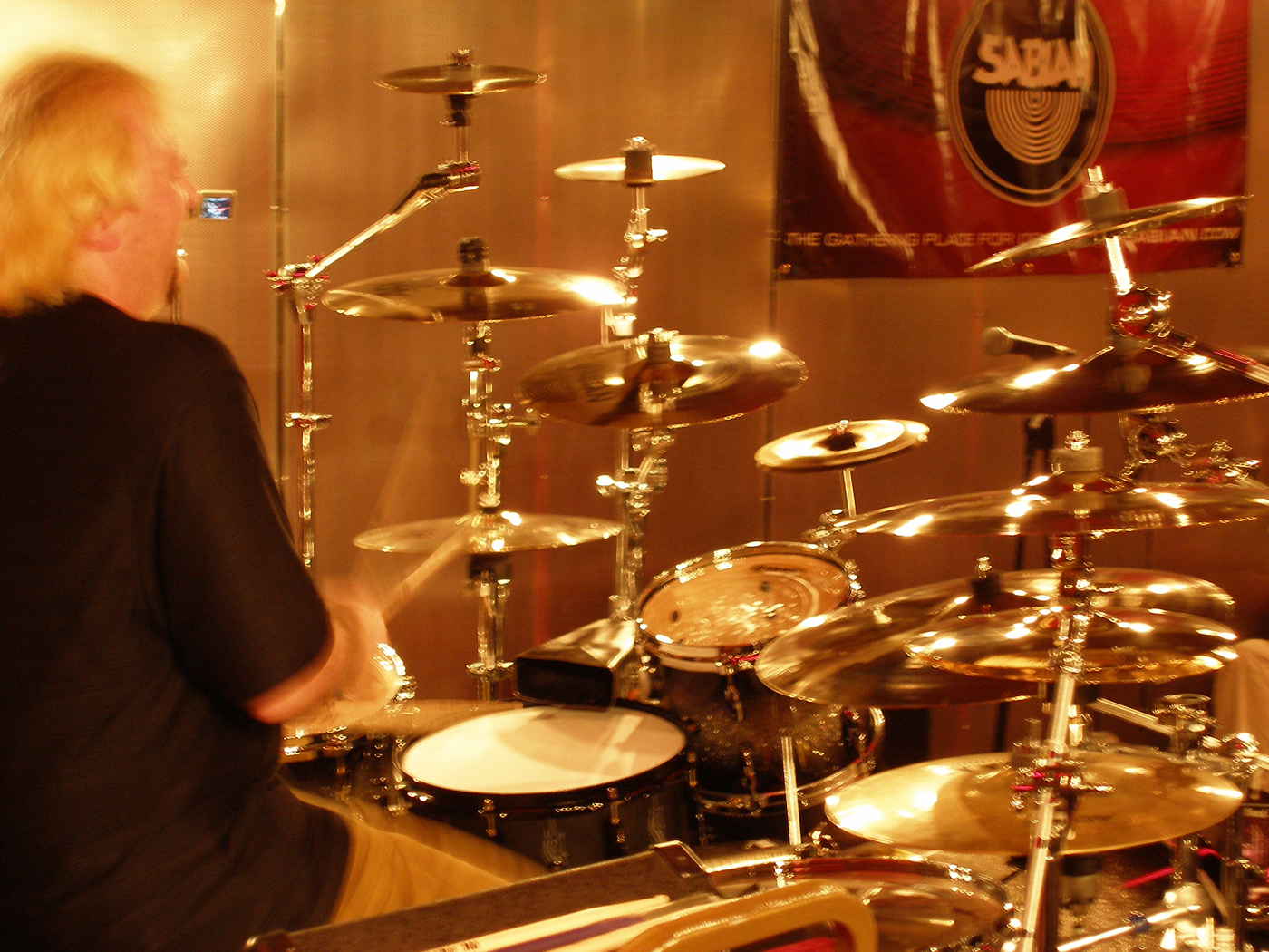 Thaler at Rhythmbase in Glasgow Scotland for a drum clinic, 2008